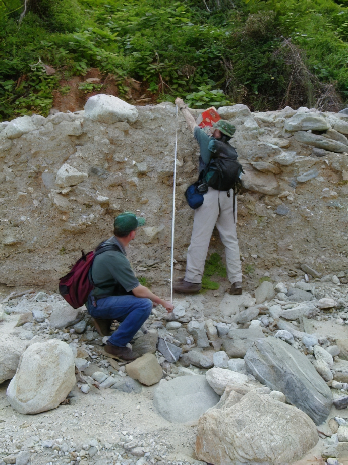 (taken verbatim from USGS caption): Debris-flow deposit, 2.9 m-thick, incised by subsequent flooding of channel in Río Camurí Chiquito. Fine-grained matrix supports coarse particles.